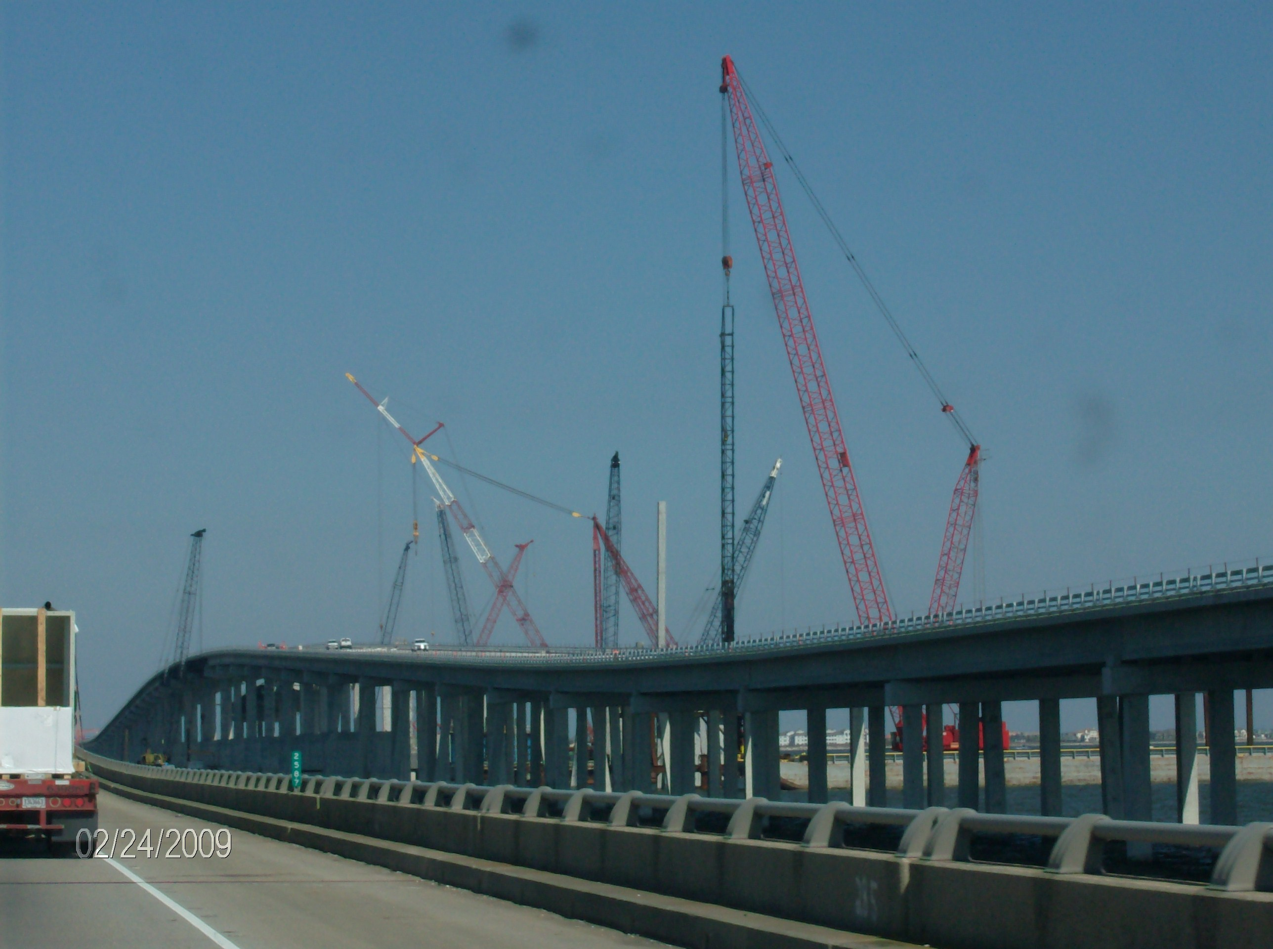 Construction of the high-rise section of the new I-10 Twin Span Bridge, about two miles from the North Shore of Lake Pontchartrain.